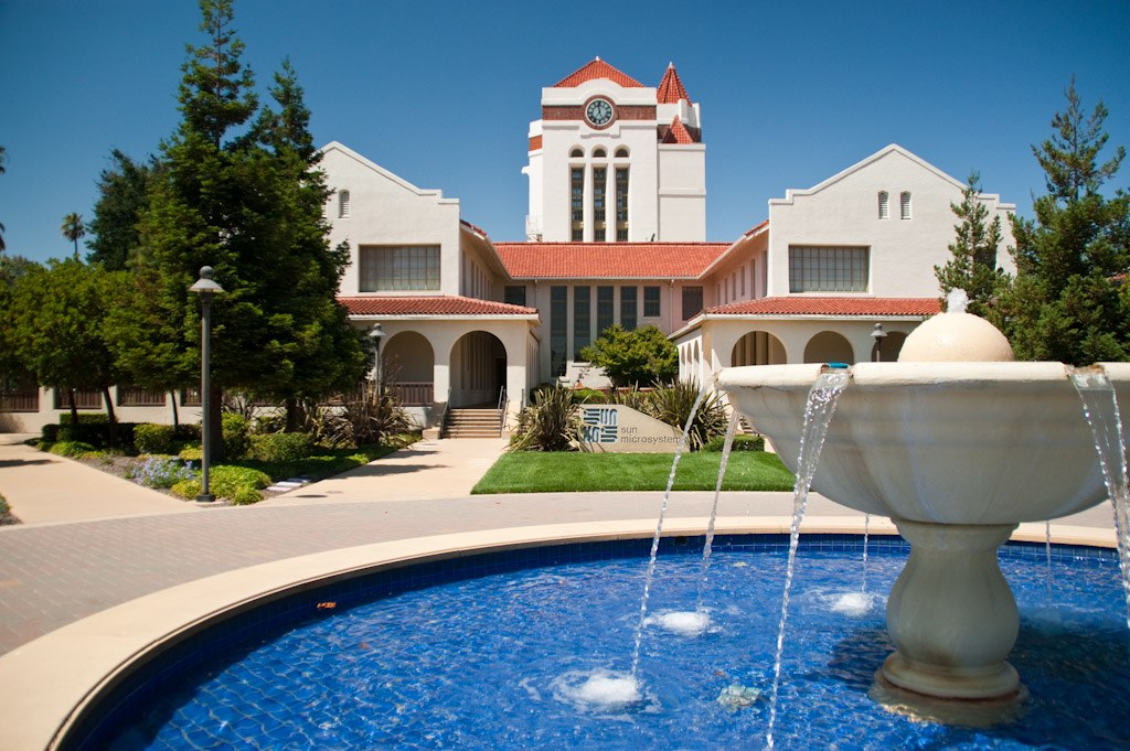 The Sun Microsystems campus in Santa Clara, California, as seen in 2009. A fountain is in the foreground and the clock tower of the former Agnews Developmental Center in the background.